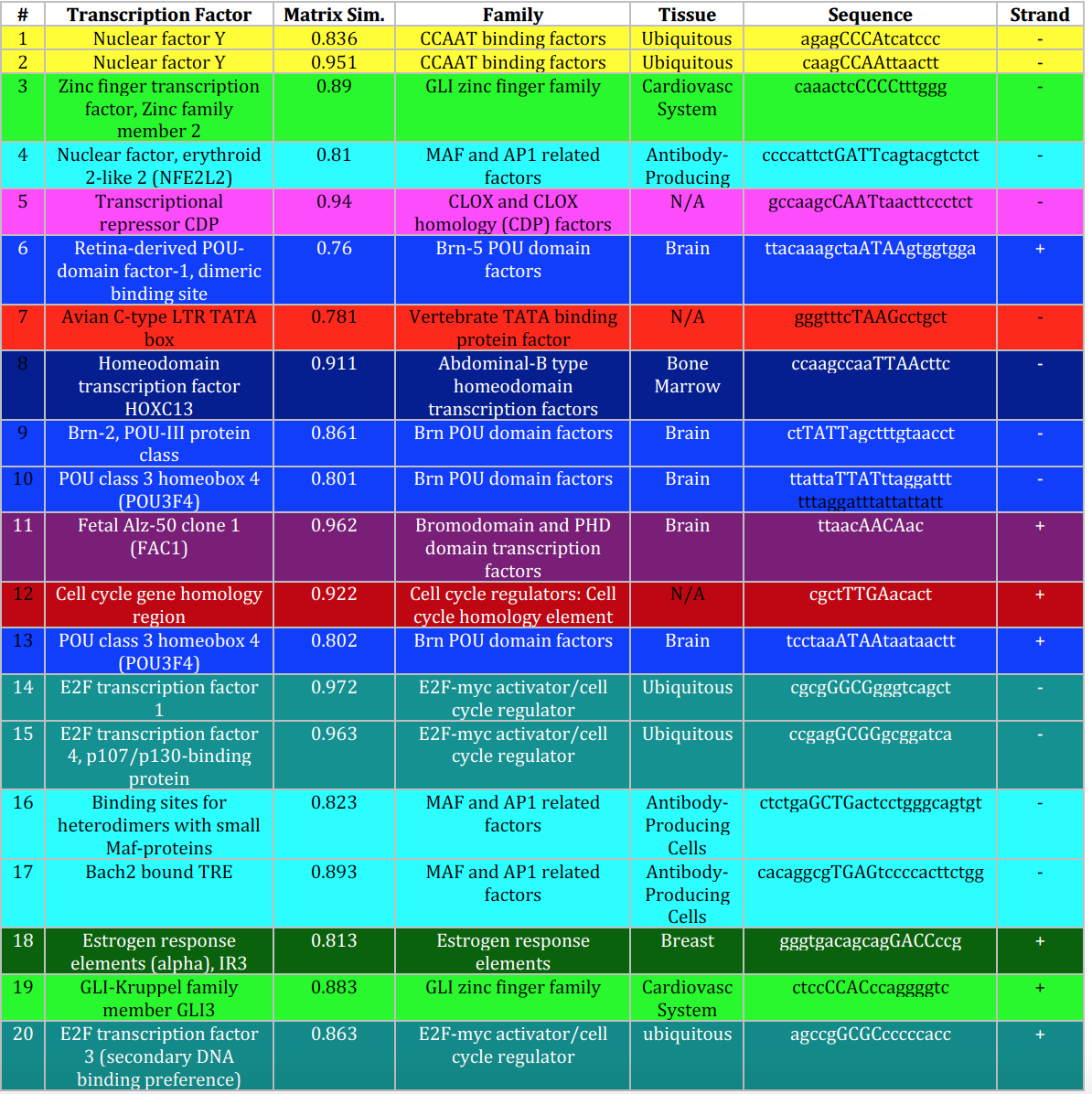 20 C9orf50 Promoter Region Transcription Factor Data from Genomatix